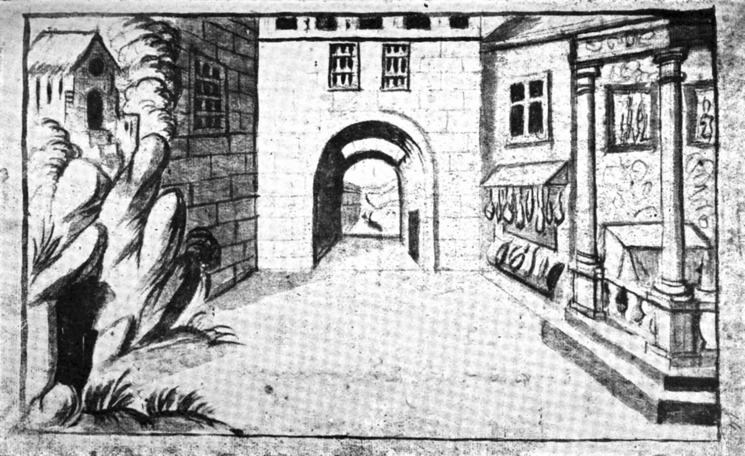 Set for Pierre du Ryer's tragi-comedy Lisandre et Caliste, first performed c. 1630 at the Hôtel de Bourgogne [1]